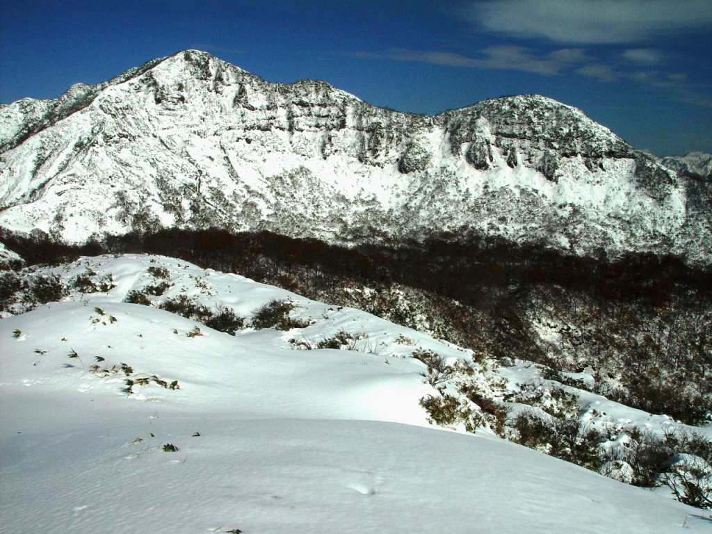 Mount Kyo (Ōno, Fukui) seen from Nakadake